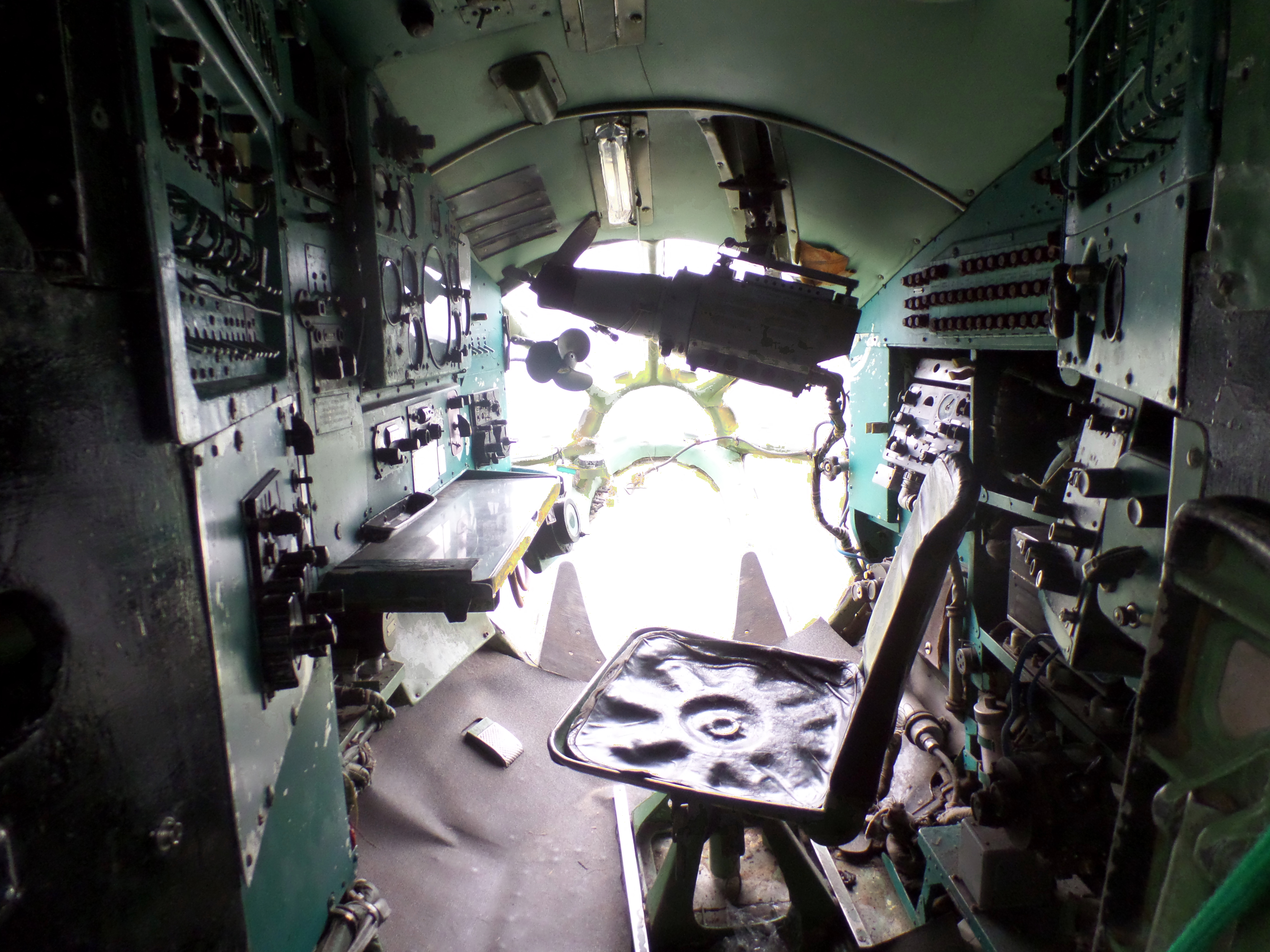 Navigator's station of Malév Tupolev Tu-134 HA-LBE at Aeropark Hungary on 20 October, 2016. The station is located in the aircraft's glass nose cone.